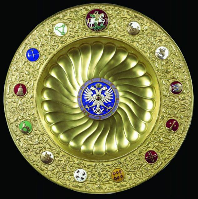 Bread and salt dish from the Khalili Collection of Enamels of the World. The imperial eagle at the centre of the dish is bordered by an inscription that translates ‘On the day of the holy coronation of the Emperor Alexander Alexandrovich and the Empress Maria Feodorovna from the Moscow nobility’; the rim bears the enamelled armorials of thirteen Russian cities, with the arms of Moscow at the apex. Described in Haydn Williams, Enamels of the World: 1700-2000 The Khalili Collections, London 2009, cat. 11, pp. 50–1. and at